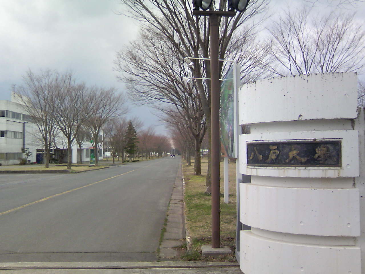 私立八戸大学・正門（青森県八戸市） (Hachinohe University - HACHINOHE, AOMORI, JAPAN)